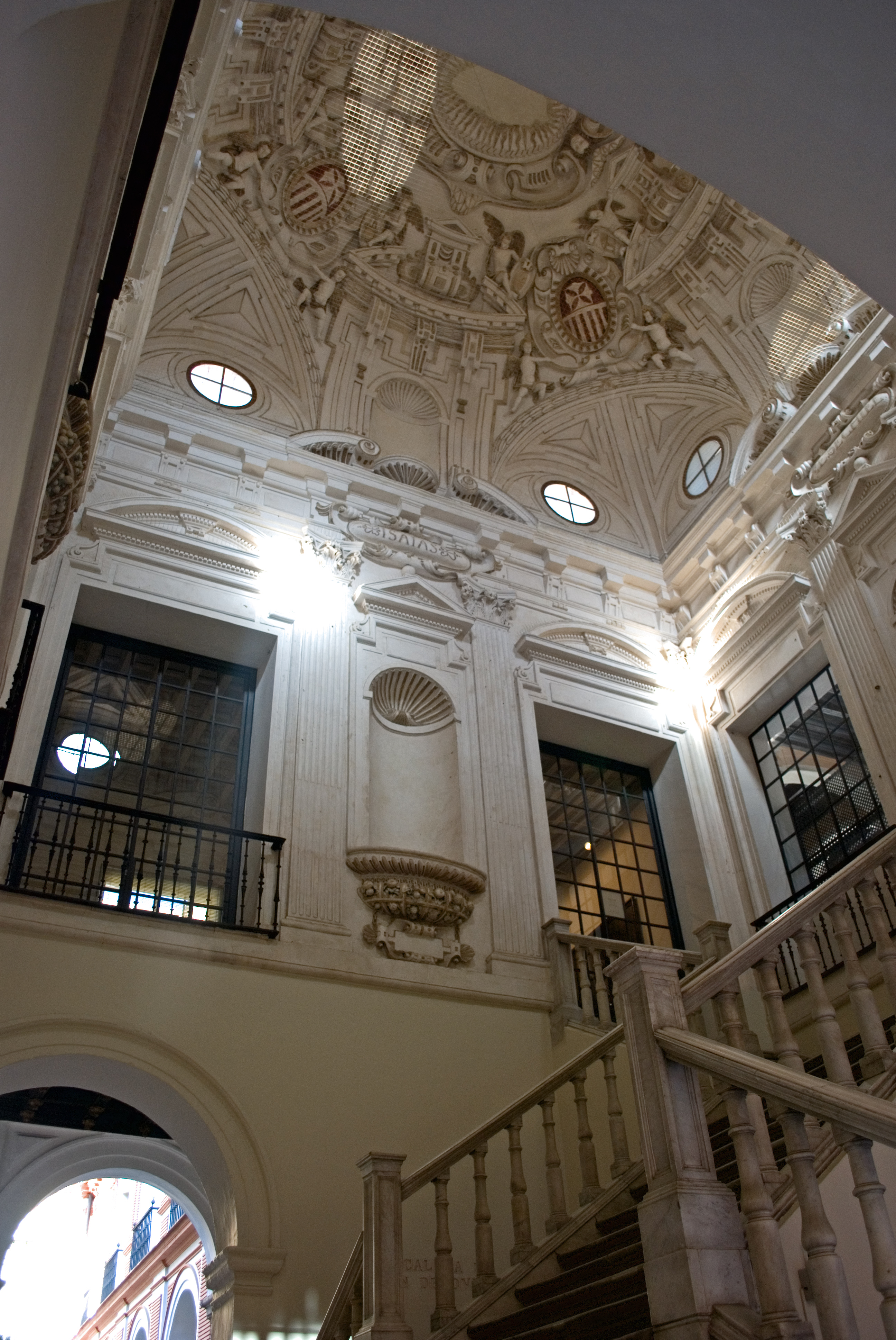 Fine Arts Museum of Seville (Andalusia).